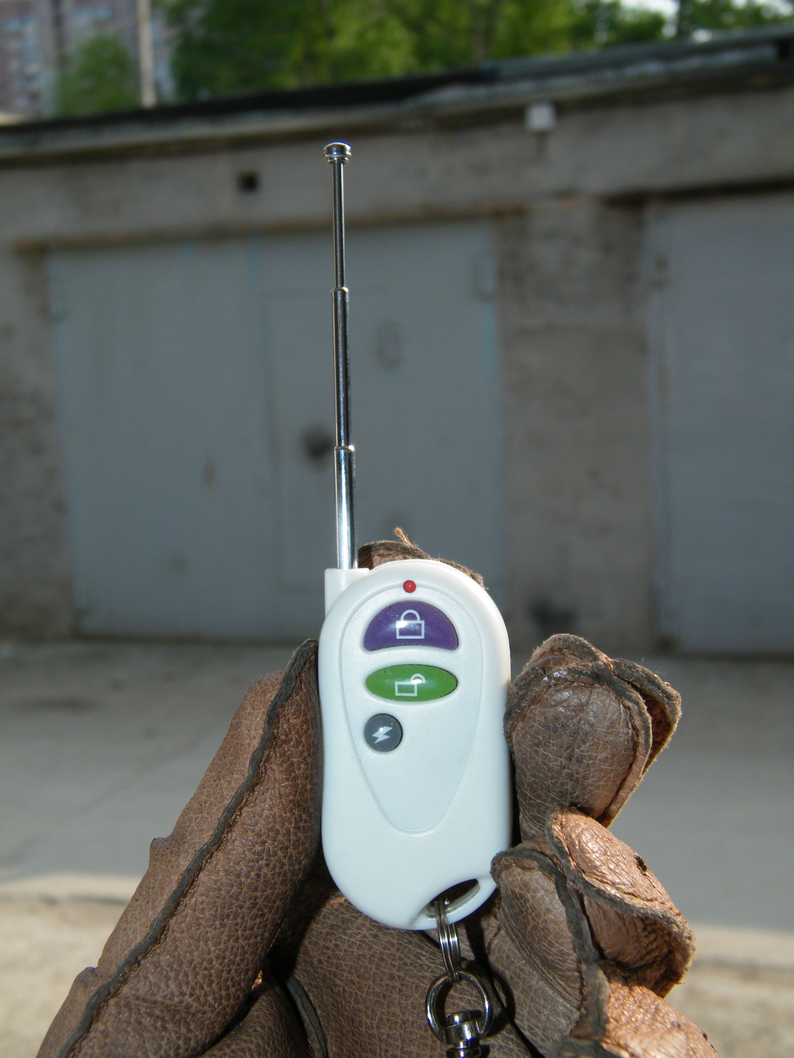 MMS-camera MegaFon V900